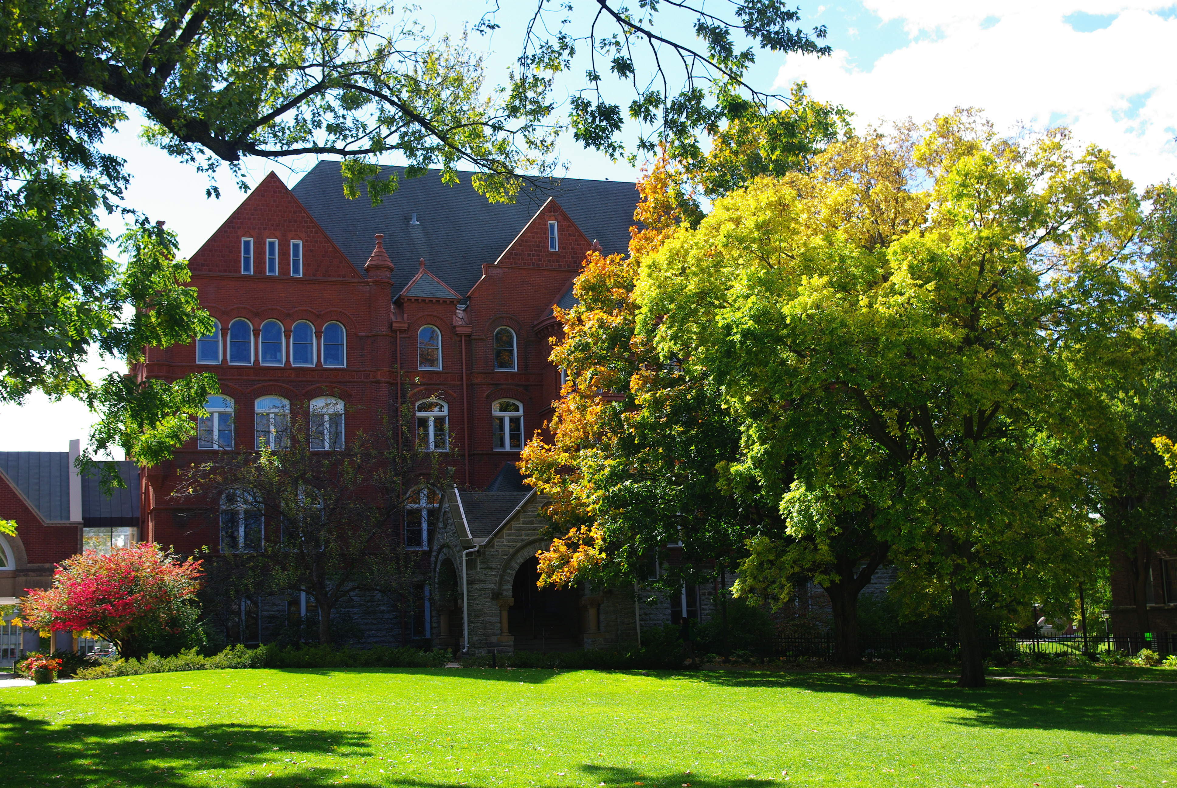 Old Main at Macalester College